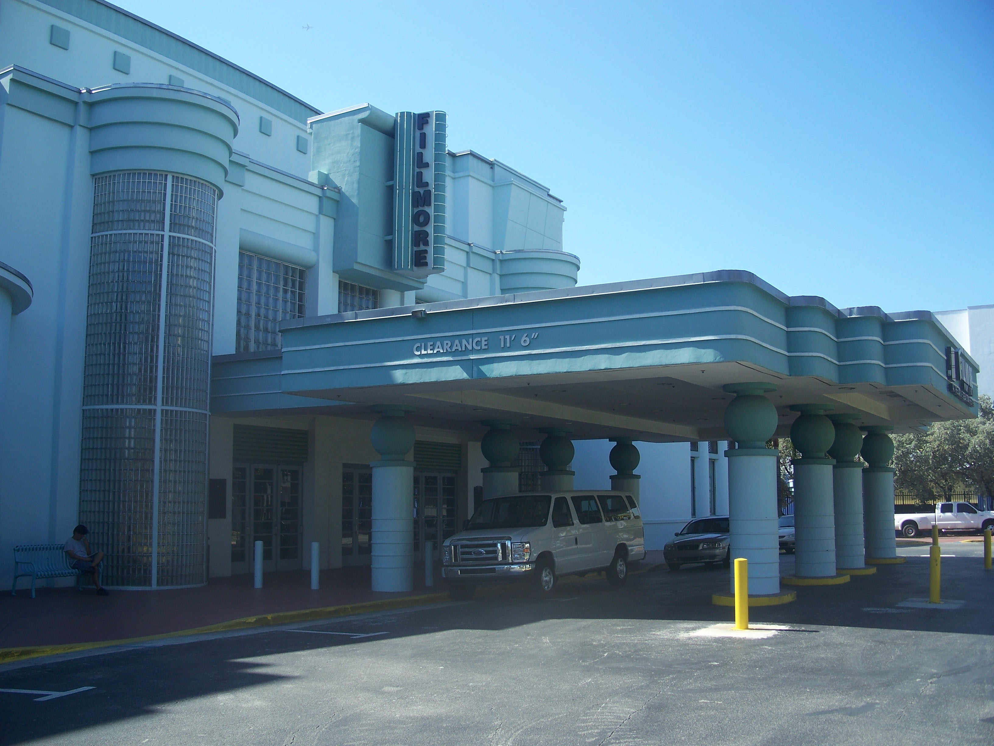 Miami Beach, Florida: The Fillmore Miami Beach at The Jackie Gleason Theater